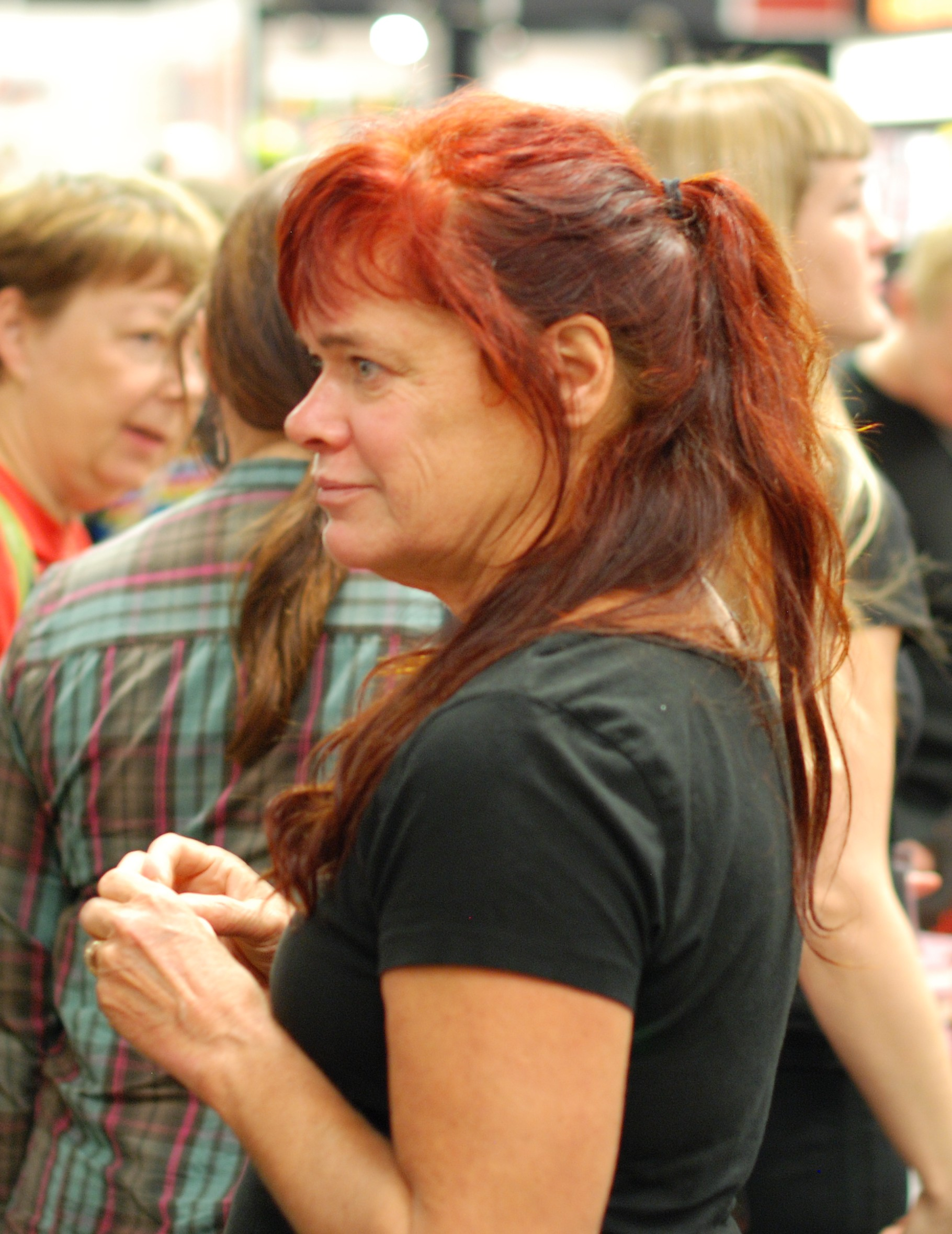 Swedish writer Lena Ackebo at the Göteborg Book Fair 2010